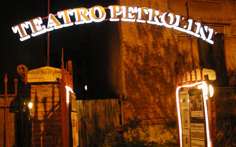 Teatro Petrolini in Rome,Italy